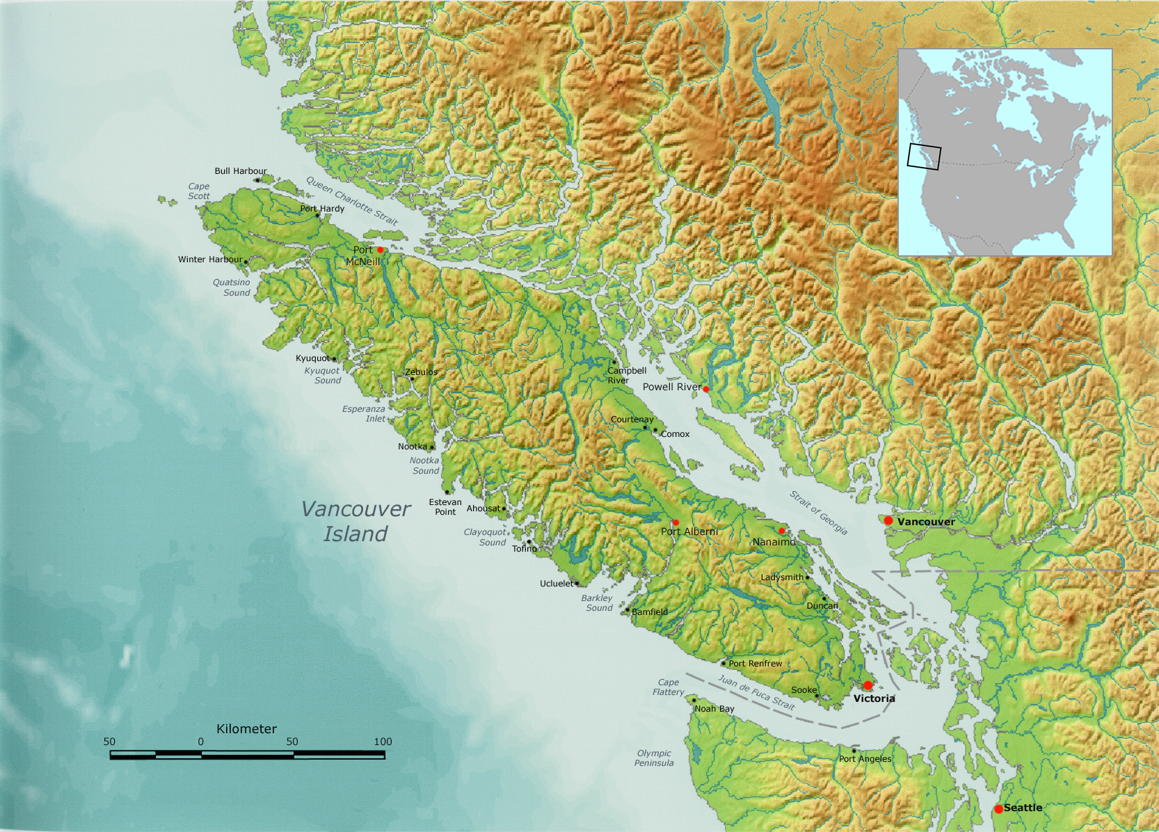 Vancouver Island, as well as the Canada-US border.